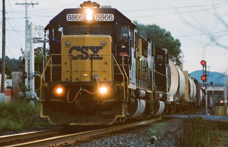 © 2008 Philip M. Goldstein